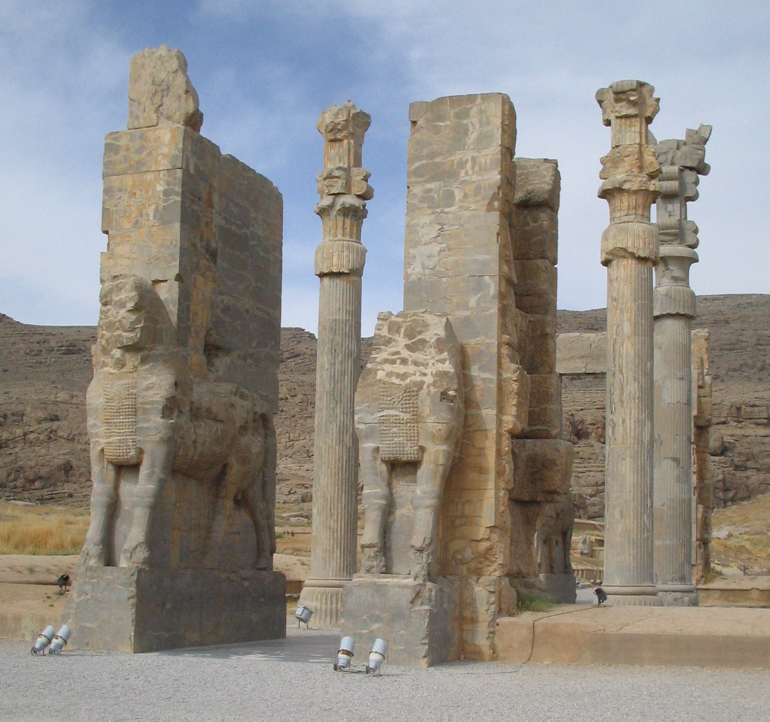 Gates of all nations in Persepolis